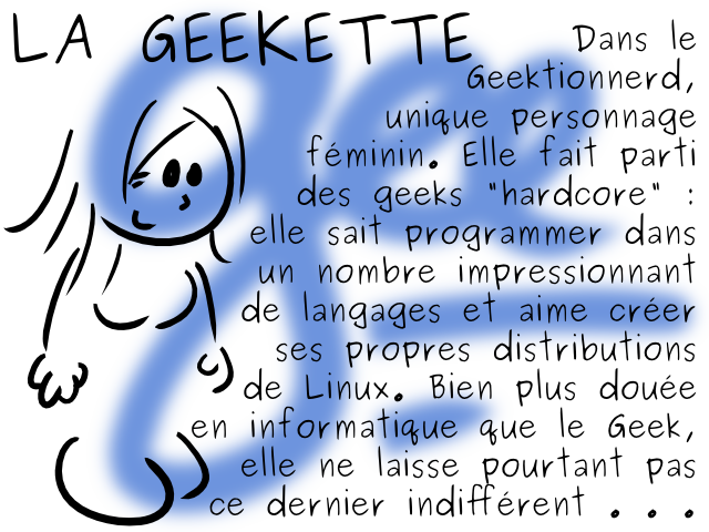 Character description of the Geekette (from Le Geektionnerd).